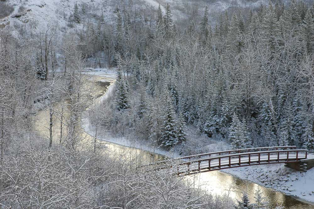 Looking east over Bridge 5 in Fish Creek Provincial Park in Calgary, Alberta, Canada. Taken by Chuck Szmurlo on March 13 2005 with a Nikon D70 and a Nikon 18-70 mm lens